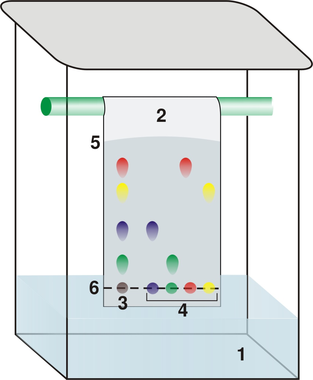 paper and thin layer chromatography scheme